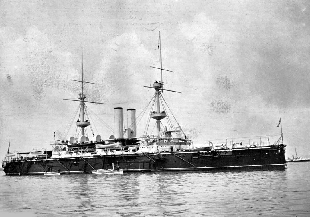 British battleship HMS Empress of India (1891).